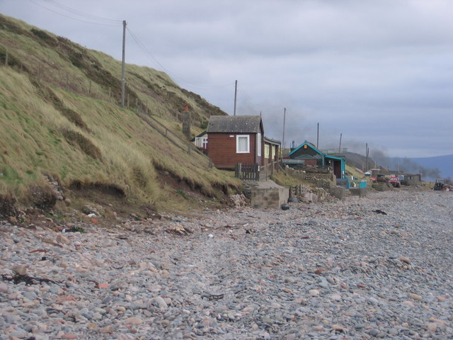 Braystones Beach Huts